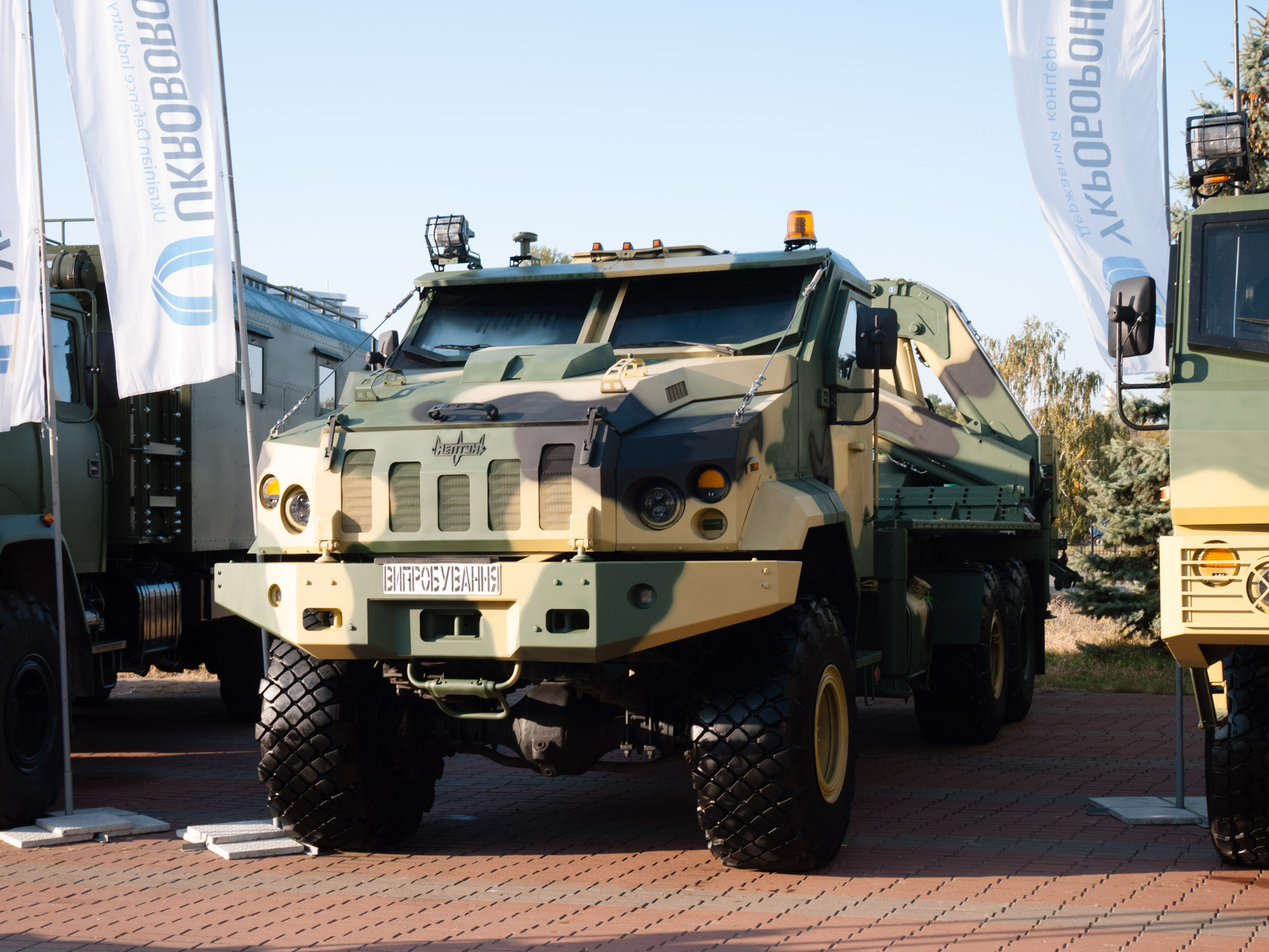 Loader (TZM) of Neptun missile complex (Ukraine). 'Zbroya ta Bezpeka' military fair, Kyiv, Ukraine, 2019